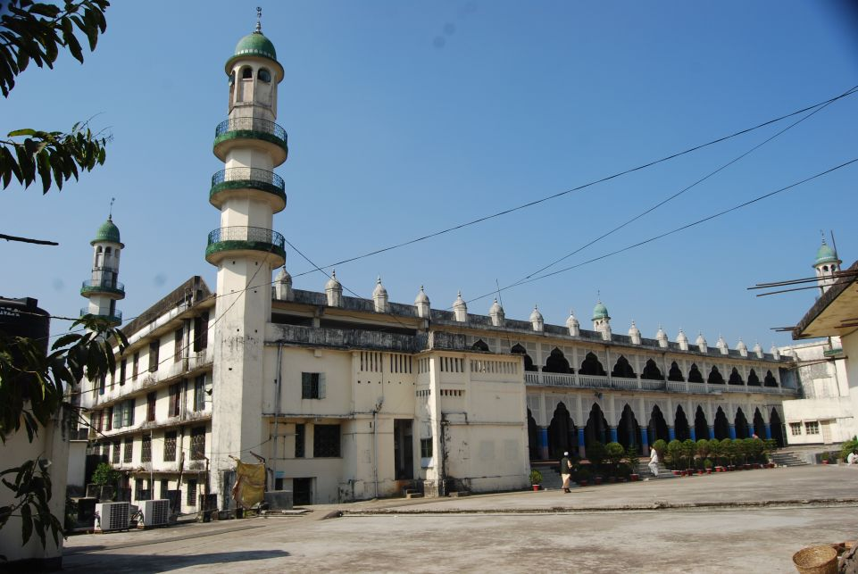 Andar Killa Mosque, Chittagong, Bangladesh.